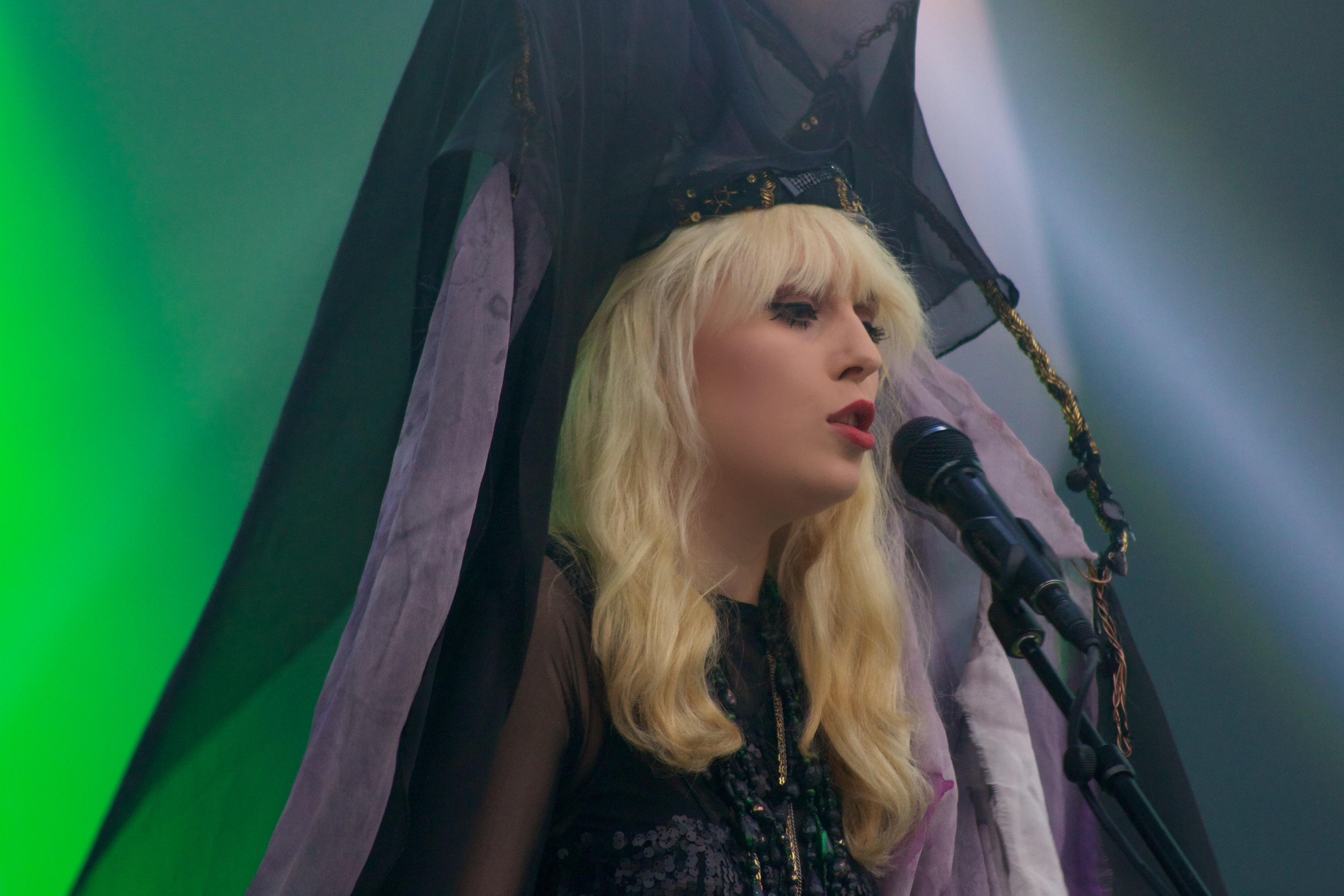 Swedish singer Amanda Jenssen performing at Grona Lund theme park.